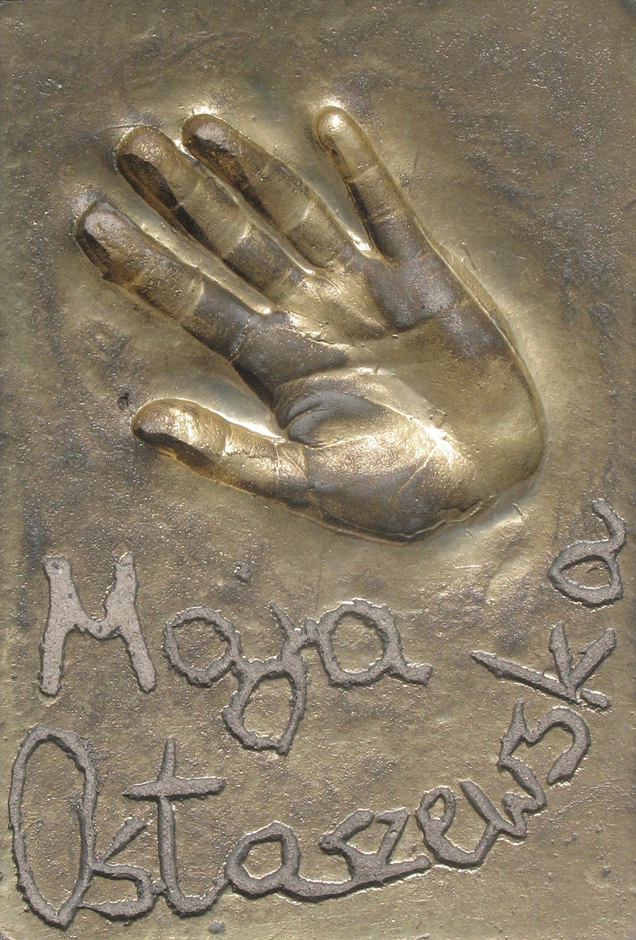 Maja Ostaszewska - handprint and signature in Międzyzdroje.